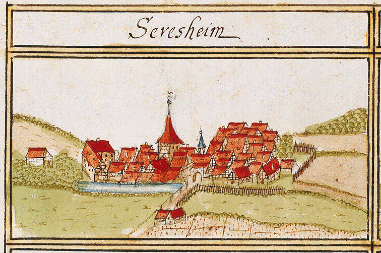 View of Sersheim from the forest register books created by Andreas Kieser